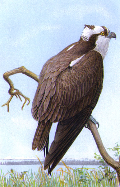 Osprey , Pandion haliaetus, chromolithograph after painting (watercolor or acrylic)